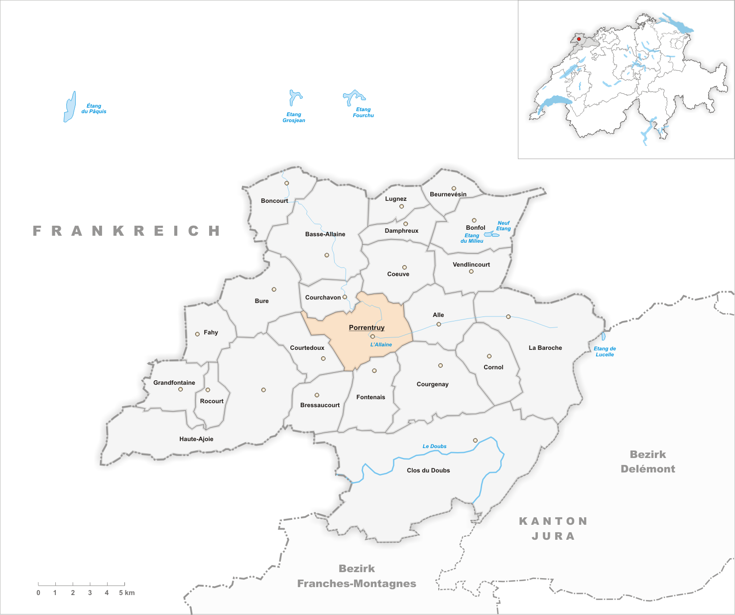 Municipality Porrentruy